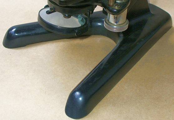 Microscope.